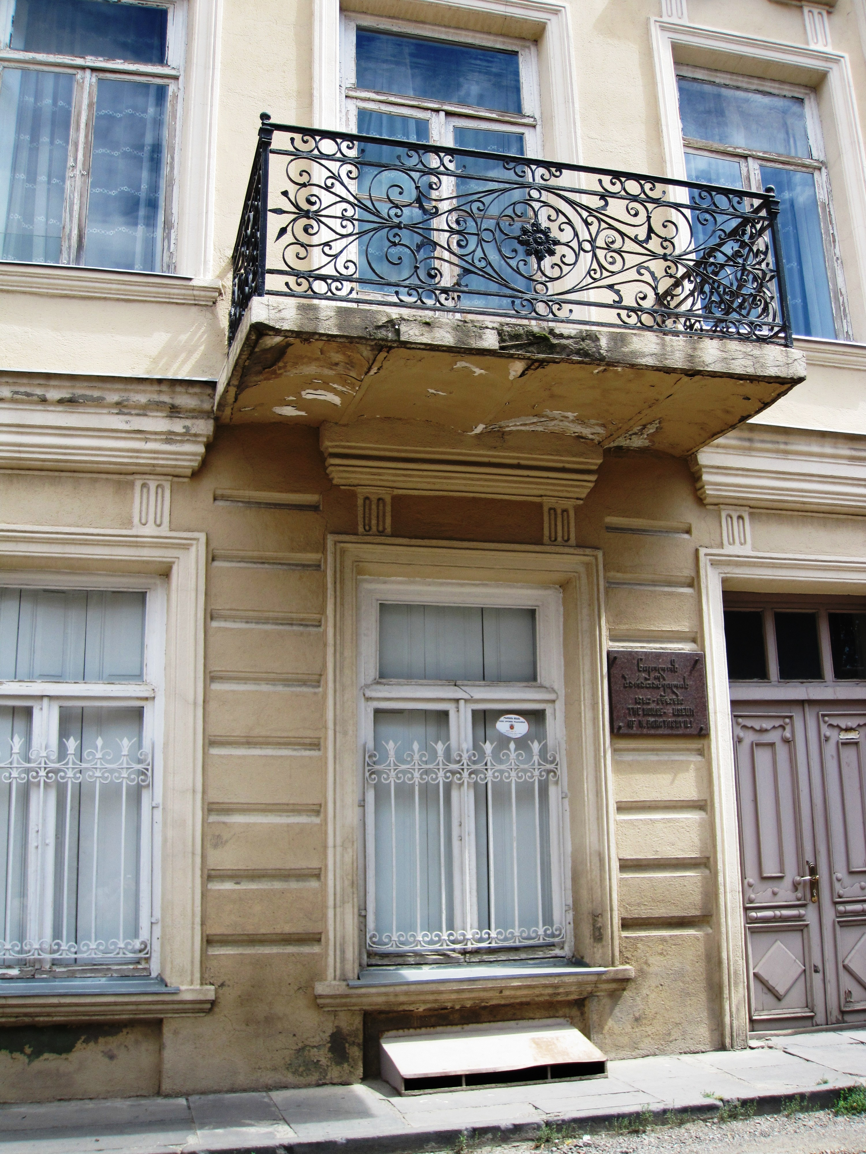 The House-Museum of Nikoloz Baratashvili, an early 19th-century Georgian Romanticist poet. Tbilisi